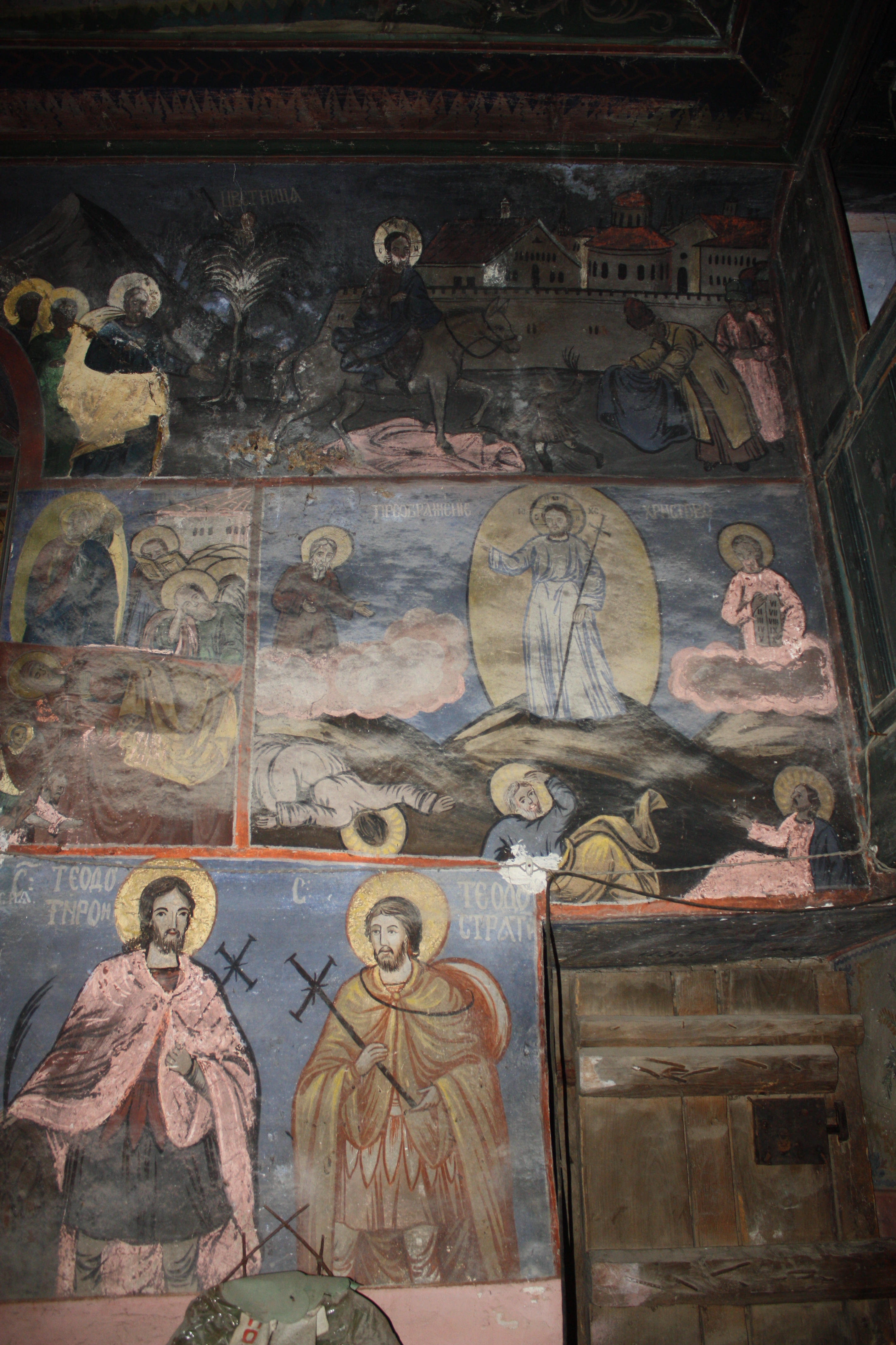 Frescos from Saint Nicolas Church in Chukovets Pernik Province. Riigtht in the middle row: Transfiguration of Jesus